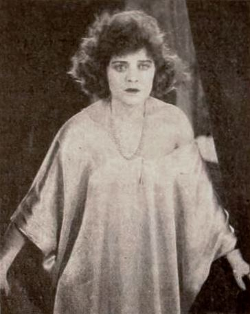 Still from the American drama film Dangerous Toys (1921) with Marguerite Clayton, on page 50 of the June 11, 1921 Exhibitors Herald.